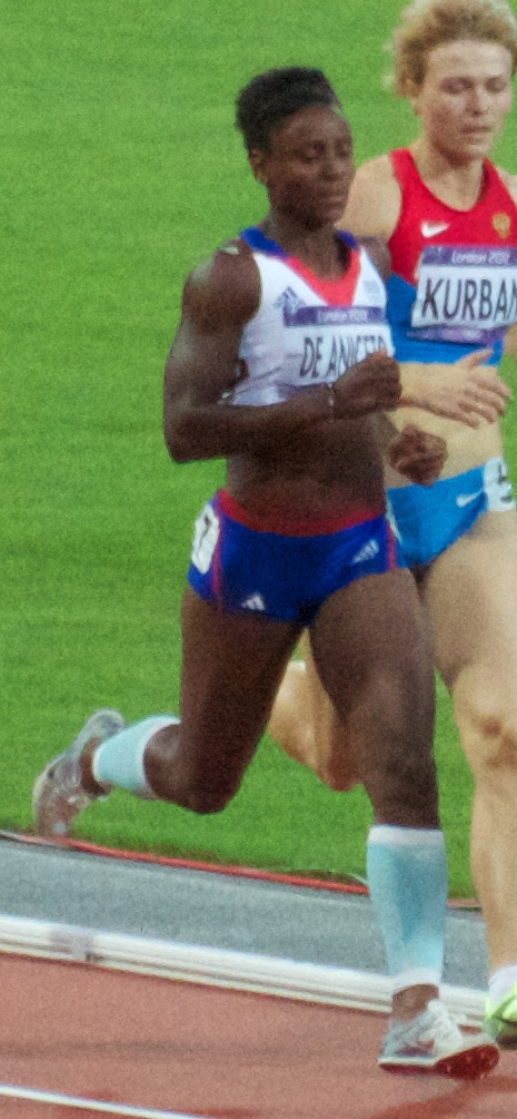 Marisa De Aniceto competing at the 2012 Summer Olympics